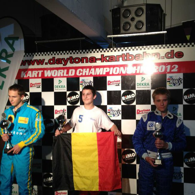 KWC junior champion 2012